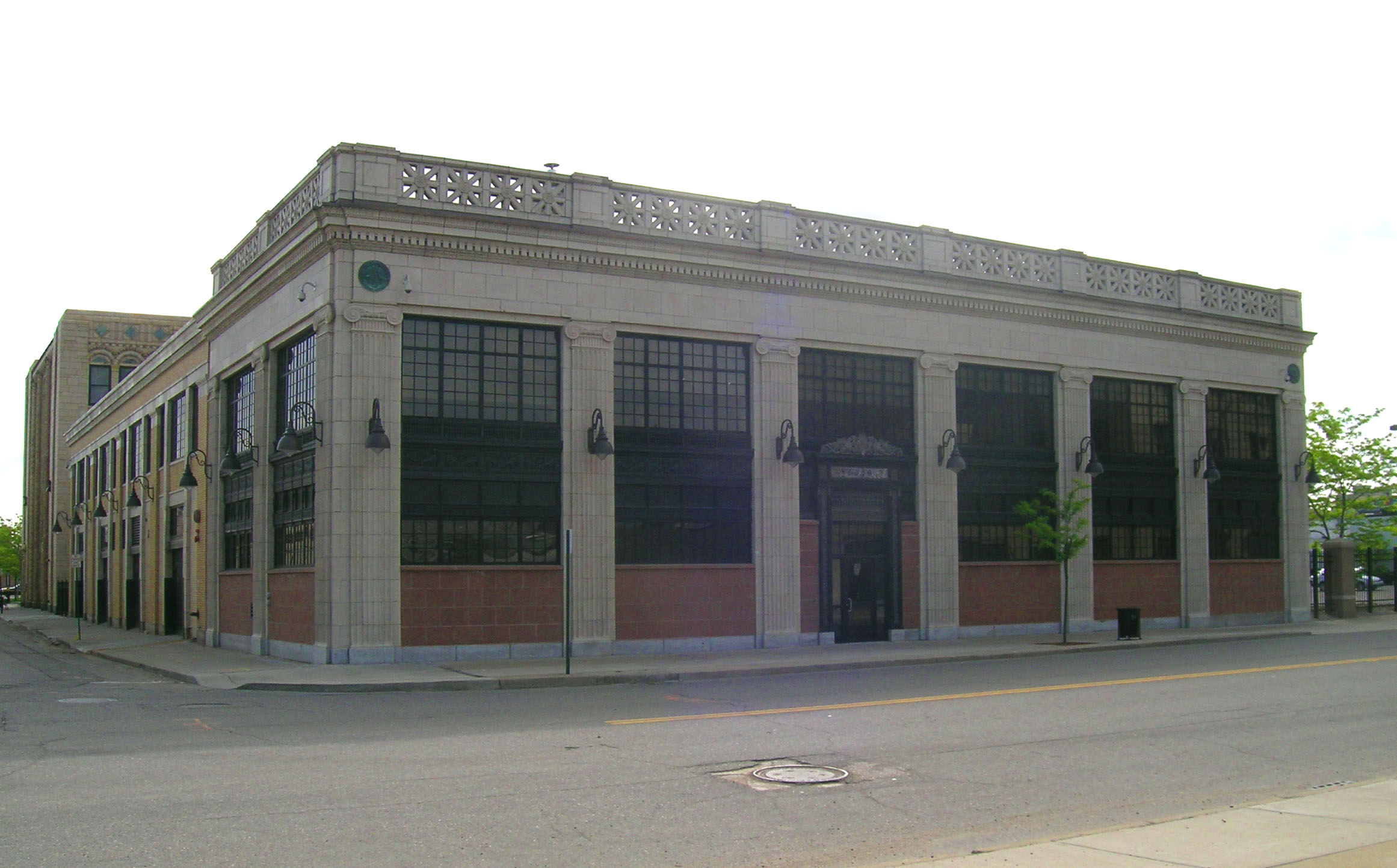 The historic Stewart-Warner Speedometer Corporation Building, located at 6050 Cass Avenue, Detroit, Michigan, United States, lies within the New Amsterdam Historic District. It currently houses the public safety department of Wayne State University.